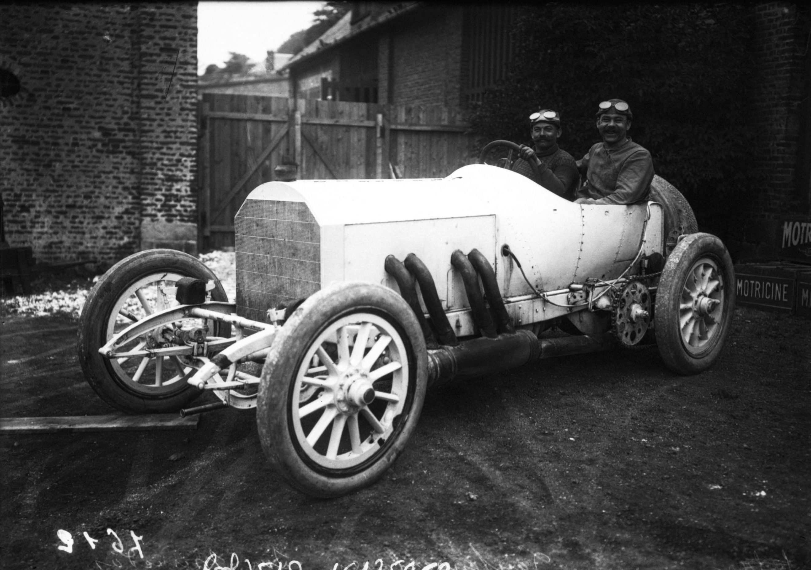 Christian Lautenschlager in his Mercedes at the 1908 French Grand Prix